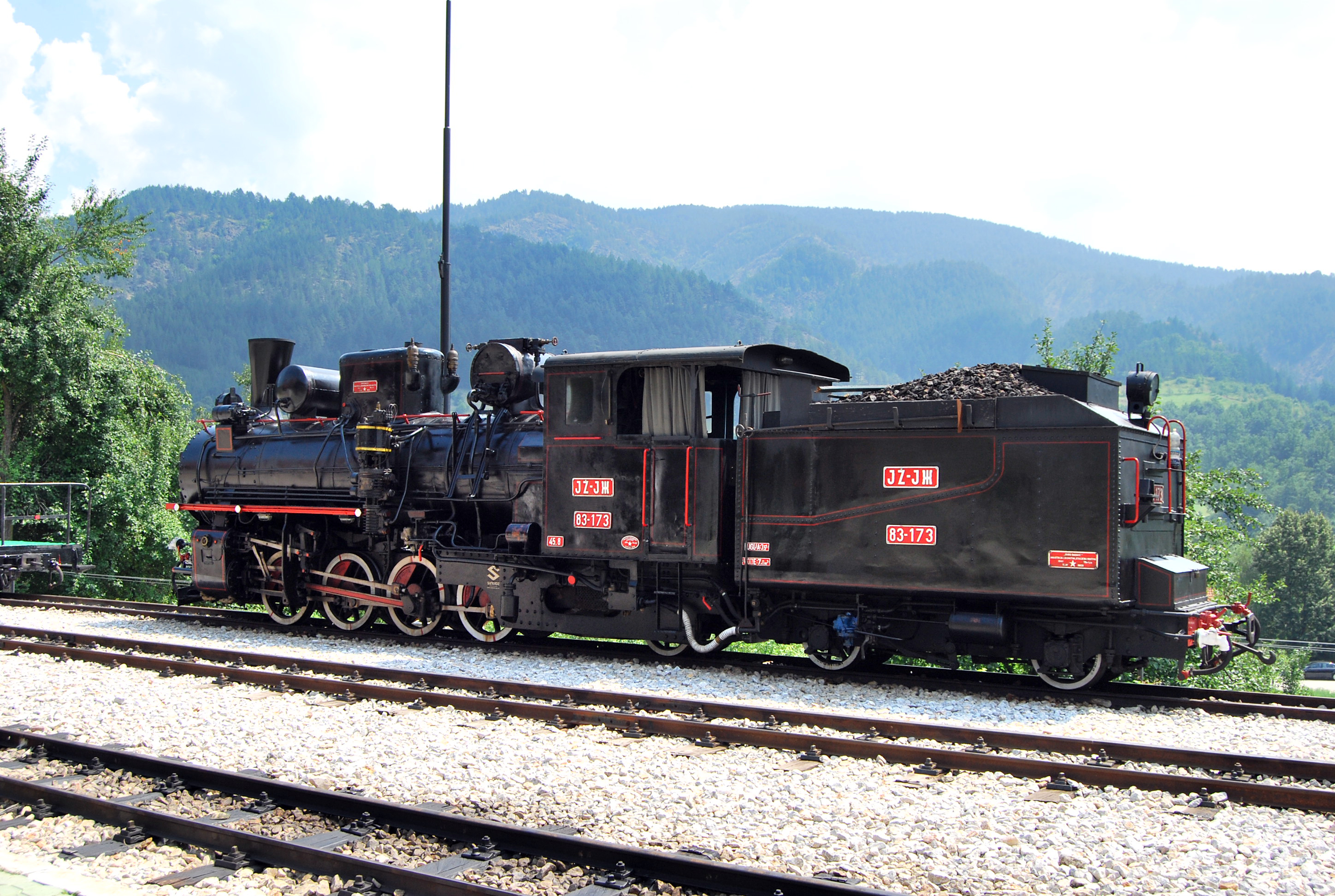 Old locomotive on Šarganska osmica, Serbia.